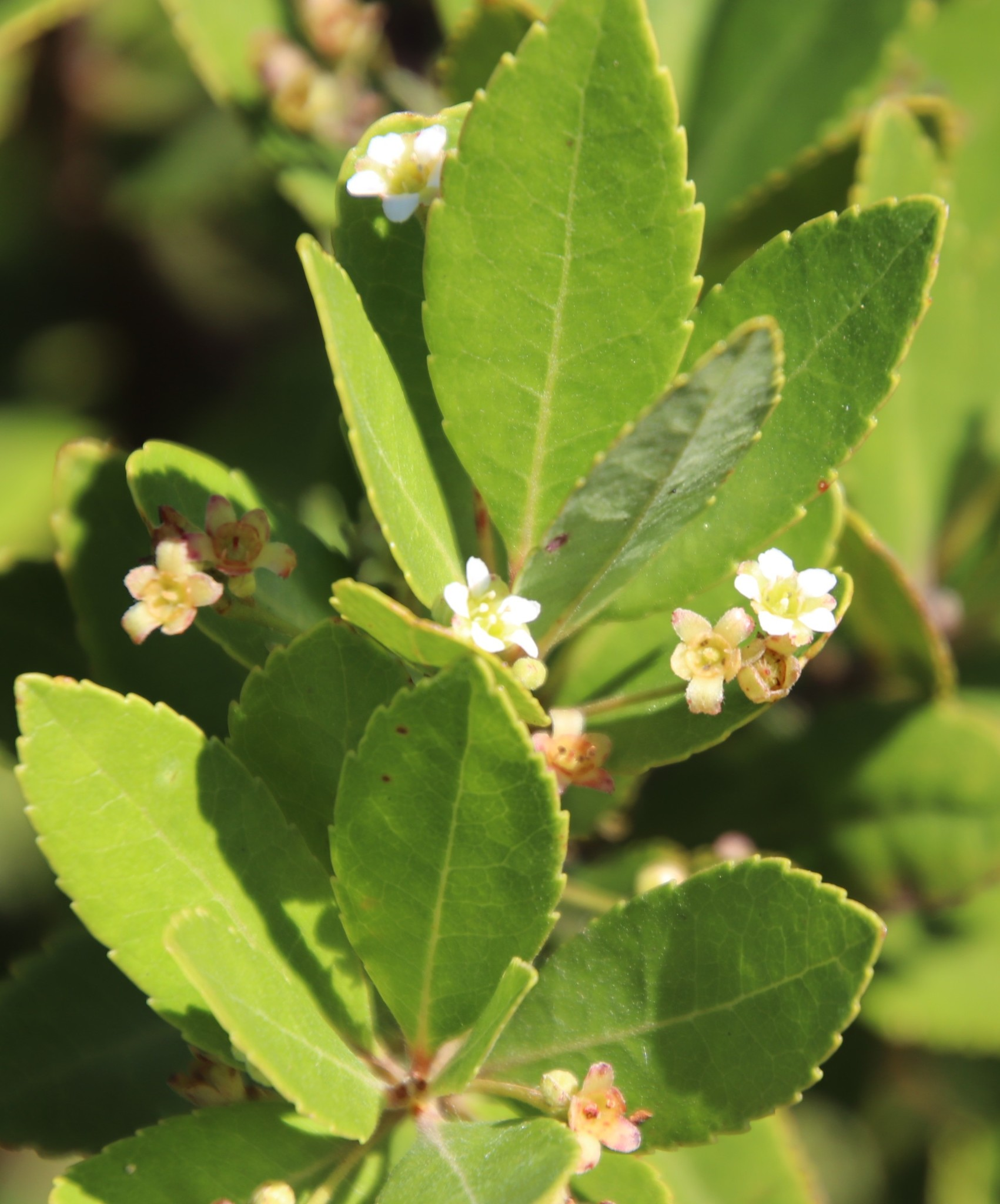 Port St Johns Airfield and approach, Mt Thesinger This media file is part of an observation on iNaturalist: tag does not indicate the copyright status of the attached work. A normal copyright tag is still required. See Commons:Licensing.